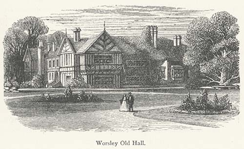 Worsley Hall, Wohnsitz des Earl of Bridgewater